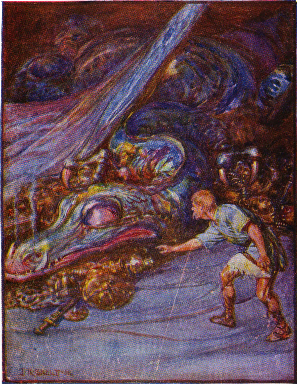 "His eyes were dazzled by the shining heap. Upon it lay a cup of gold, wondrously chased and adorned. 'If I can but gain that cup,' said the slave to himself, ' I will return with it to my master, and for the sake of the gold he will surely forgive me.' So while the Dragon slept, trembling and fearful the slave crept nearer and nearer to the glittering mass. When he came quite near he reached forth his hand and seized the cup. Then with it he fled back to his master. It befell then as the slave had foreseen. For the sake of the wondrous cup his misdeeds were forgiven him. But when the Dragon awoke his fury was great. Well knew he that mortal man had trod his cave and stolen of his hoard." An illustration of the slave in Beowulf who stole the dragon's golden cup, thinking to redeem himself, and thus aworke the dragon. Marshall, Henrietta Elizabeth (1908) Stories of Beowulf, T.C. & E.C. Jack, p. 93 Stories of Beowulf-1 Page 108 Image 0002.jpg